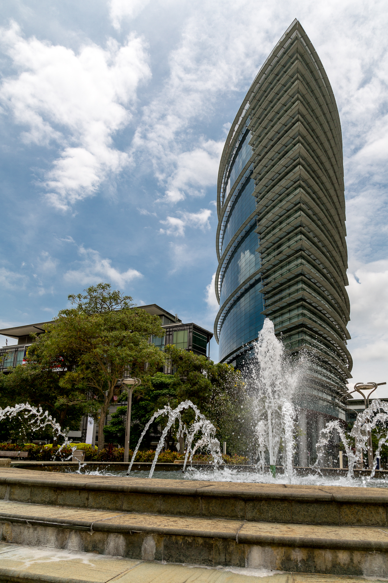 Putrajaya, Malaysia: Kementerian Sumber Asli dan Alam Sekitar (Ministry of Natural Resources and Environment; NRE)